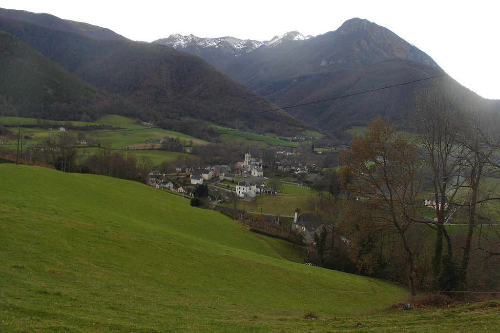 Overview of Artés Asson